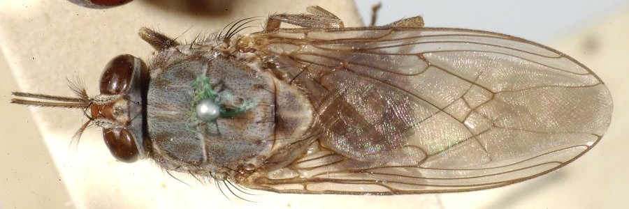 tsetse fly which transmits sleeping sickness